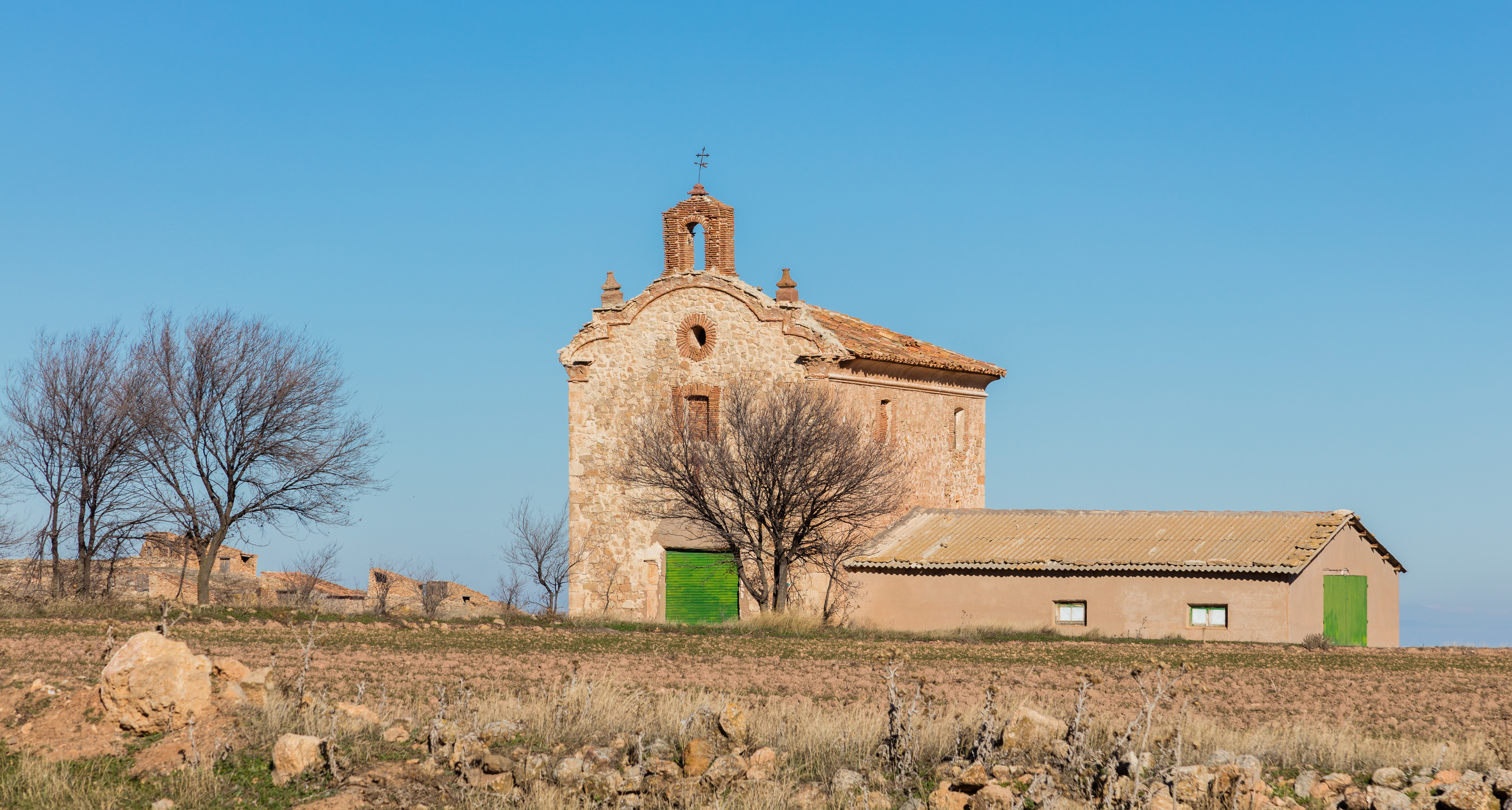 Monforte de Moyuela, Teruel, Spain